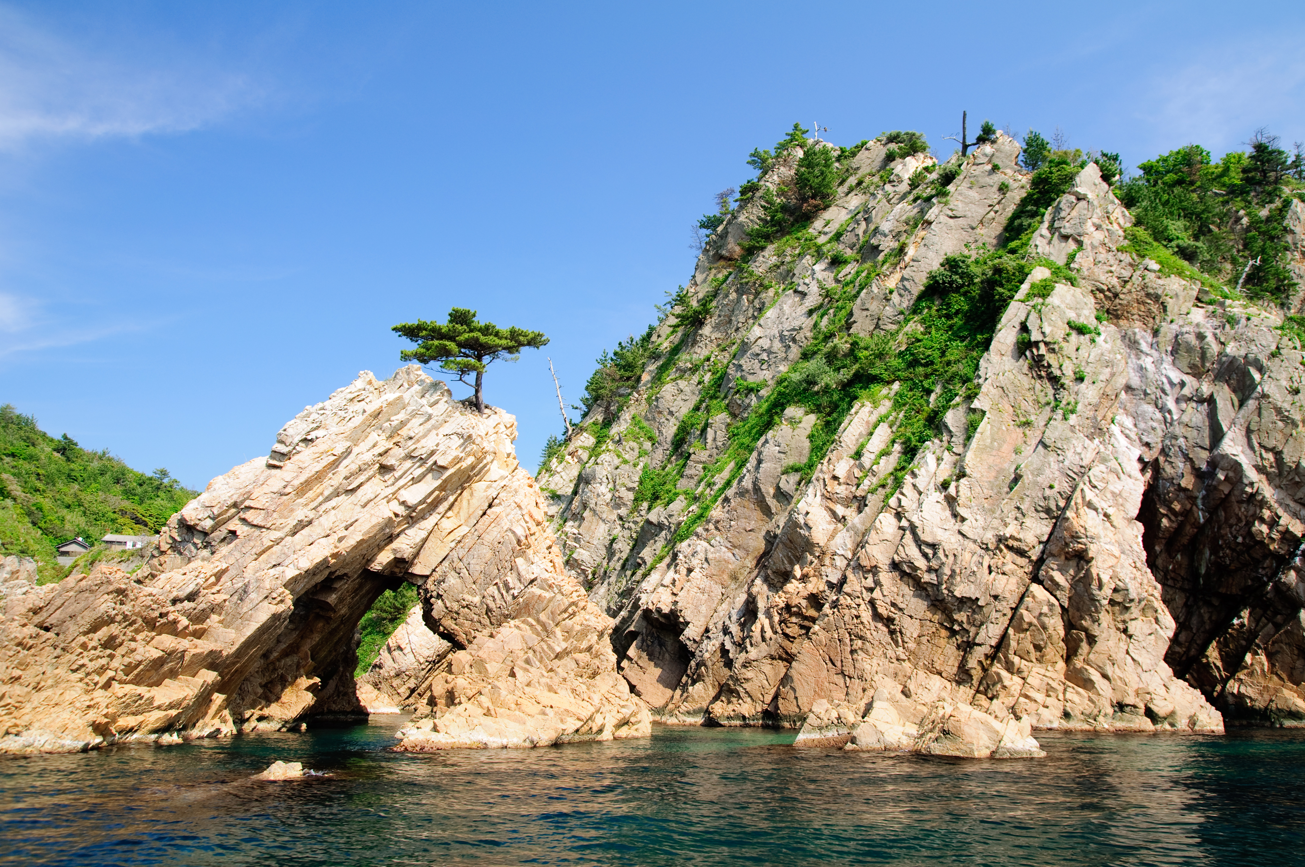 Uradome Coast Sengan-Matsushima in Iwami, Tottori prefecture, Japan.